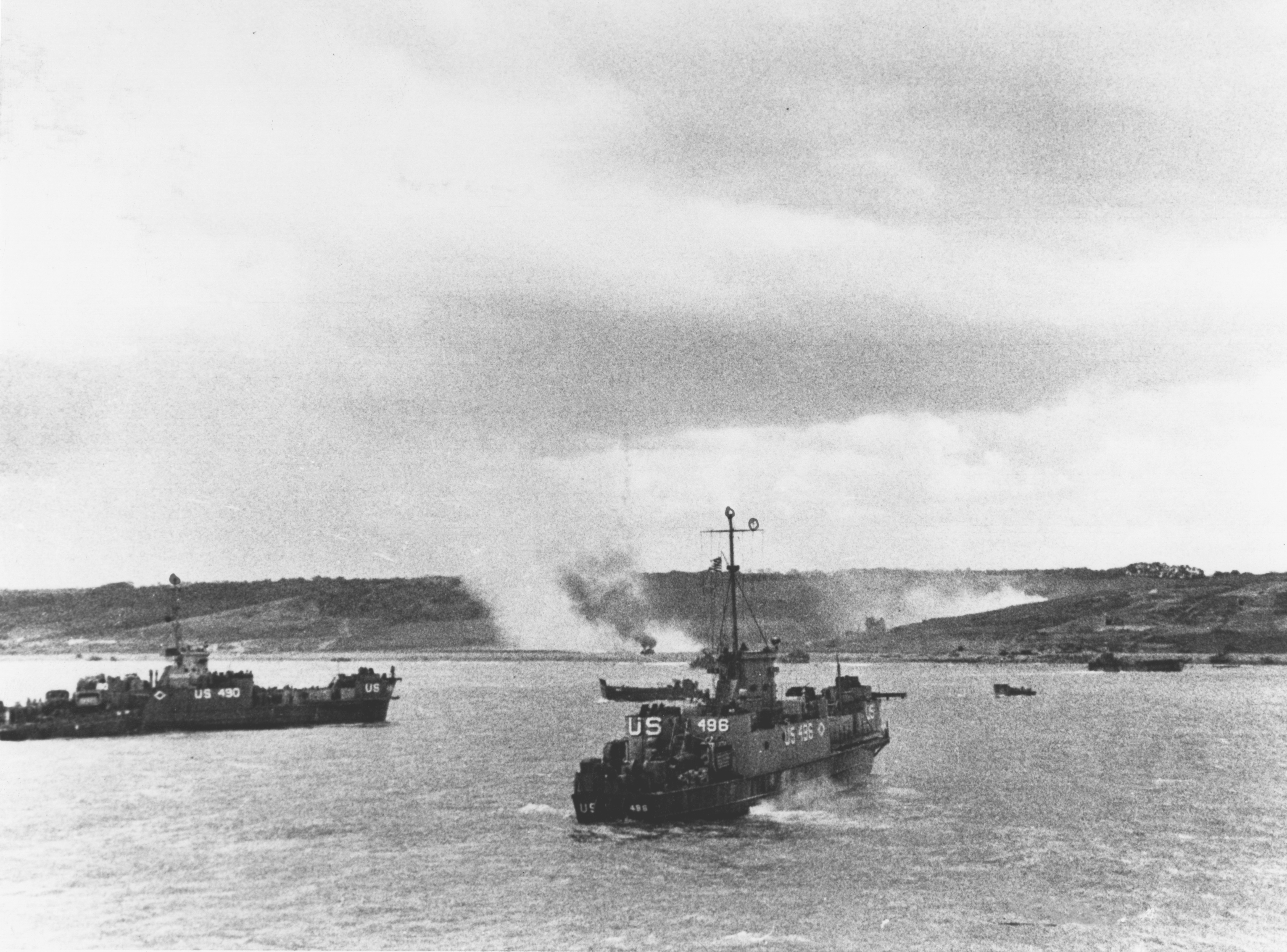 The U.S. Navy infantry landing craft USS LCI(L)-490 and USS LCI(L)-496 approach Omaha Beach. The original caption gives date as 7 June 1944, but the heavy smoke ashore strongly indicates that the view was taken on D-Day, 6 June 1944. Photographed by Wall. Photograph from the